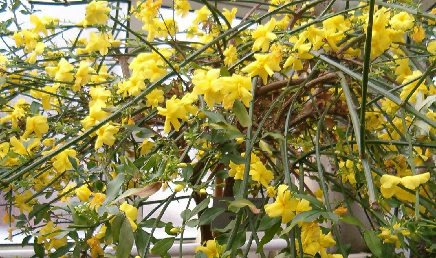 Location: Botanical Gardens Berlin Dahlem